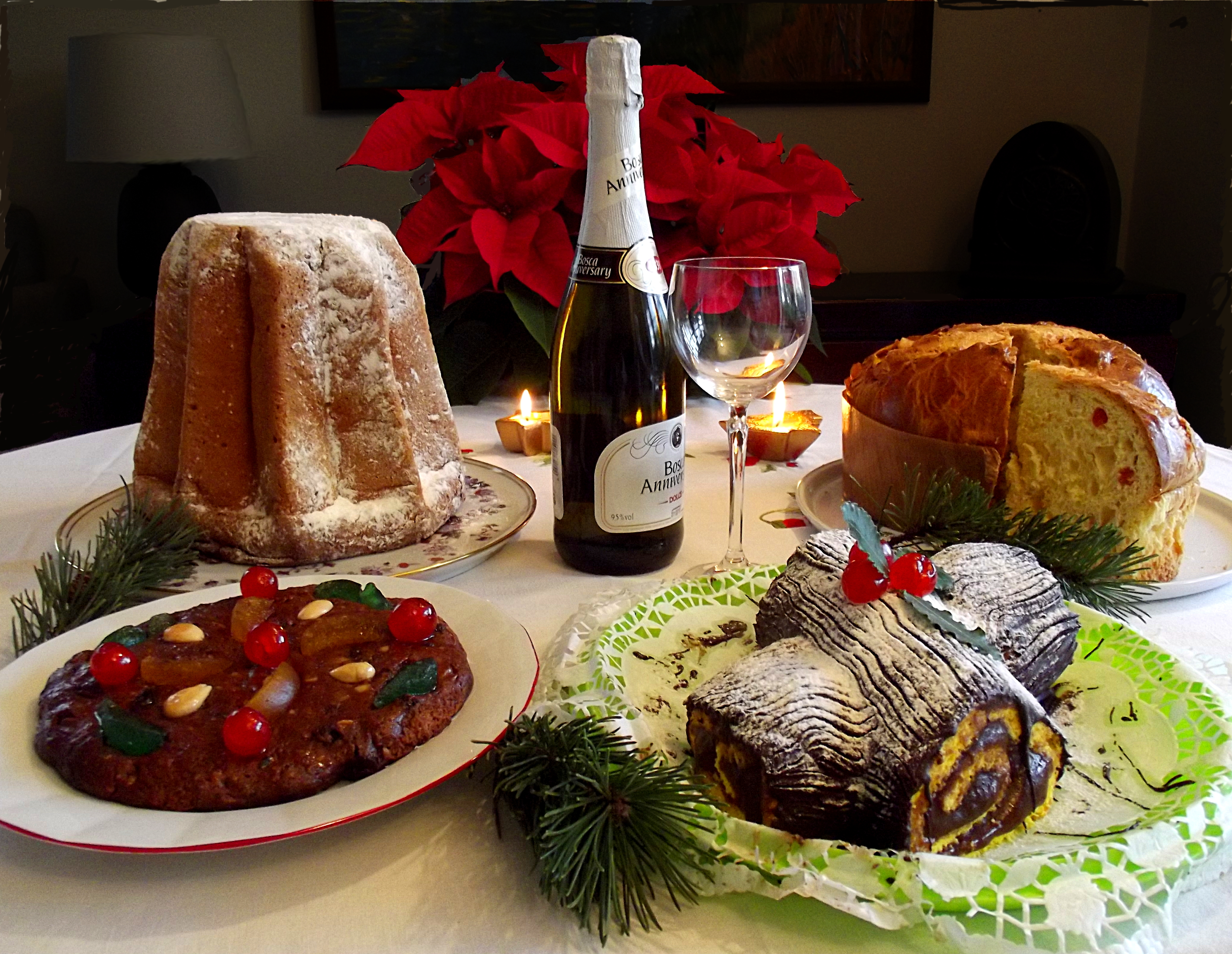 Italian Christmas cakes